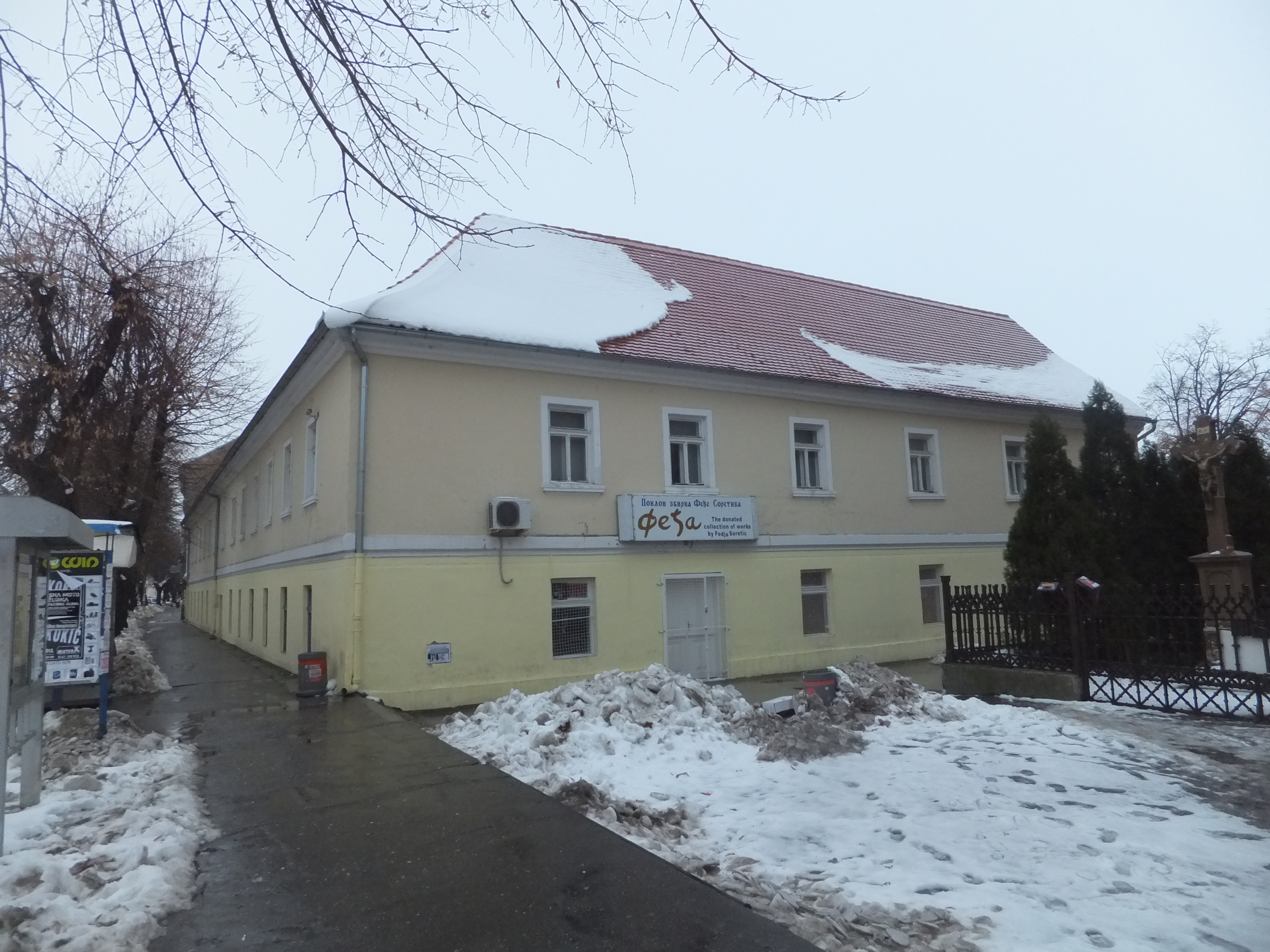 Museum of Ruma